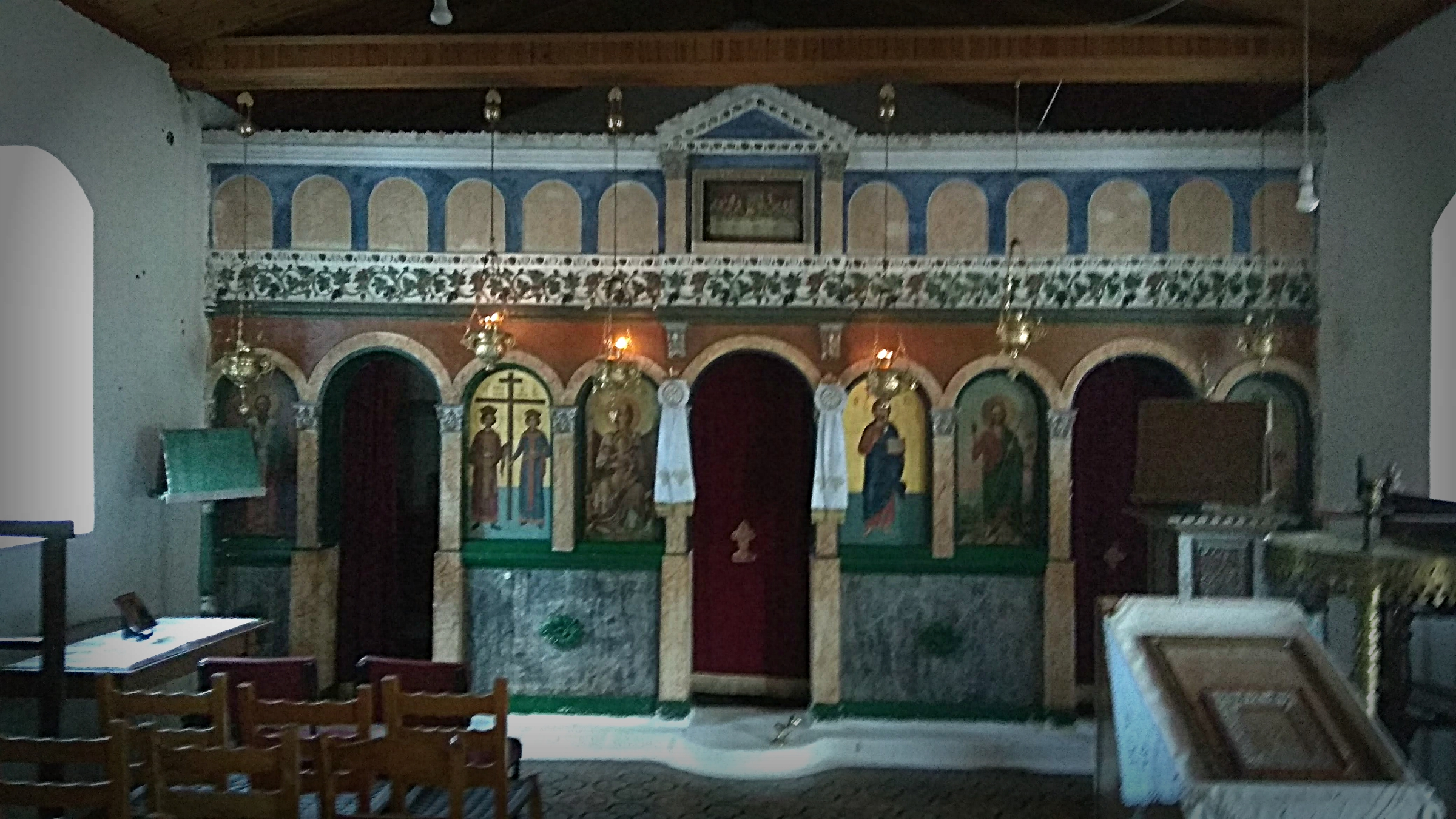 Agios Konstantinos chapel at Kleidi